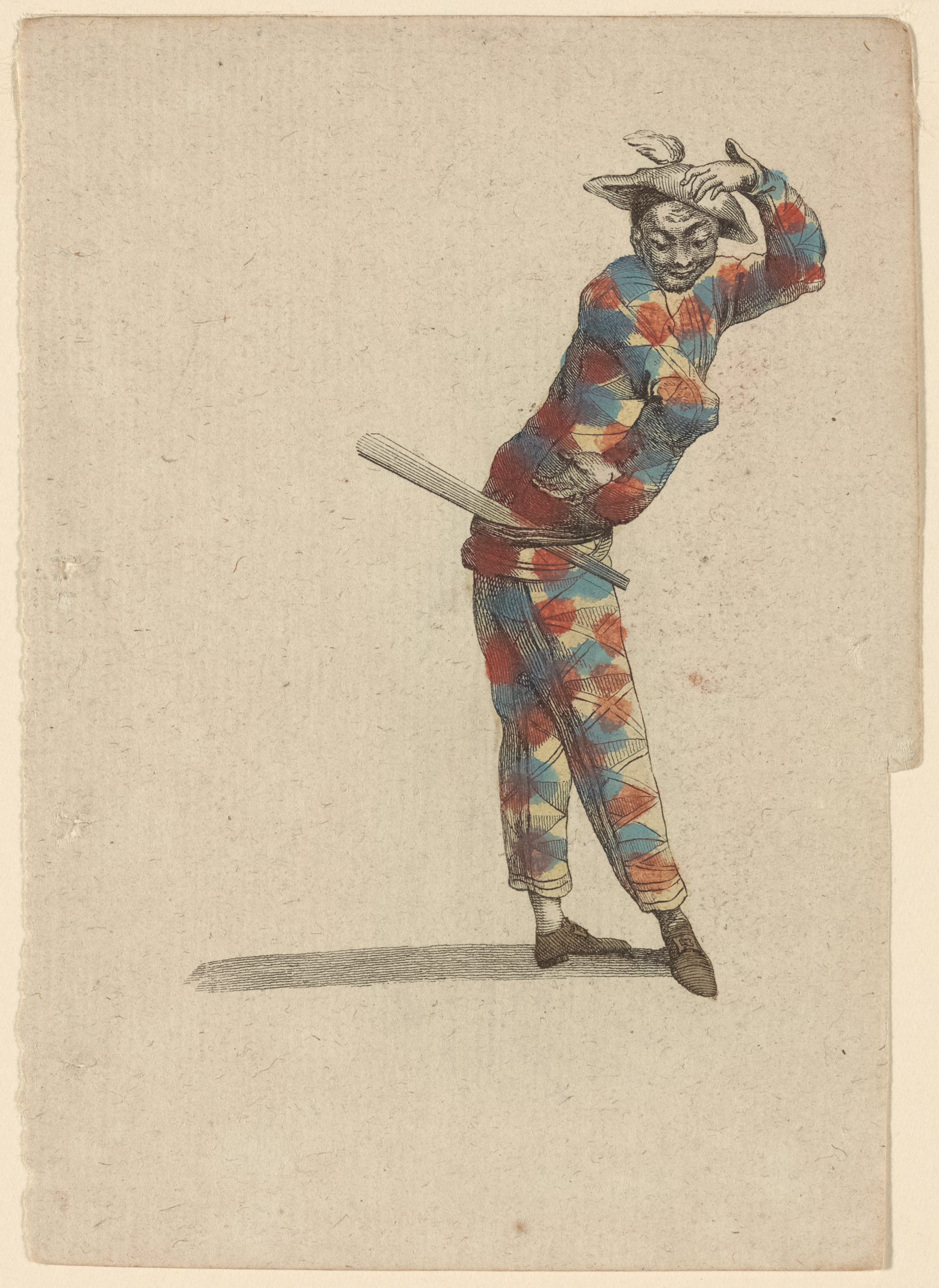 Harlequin